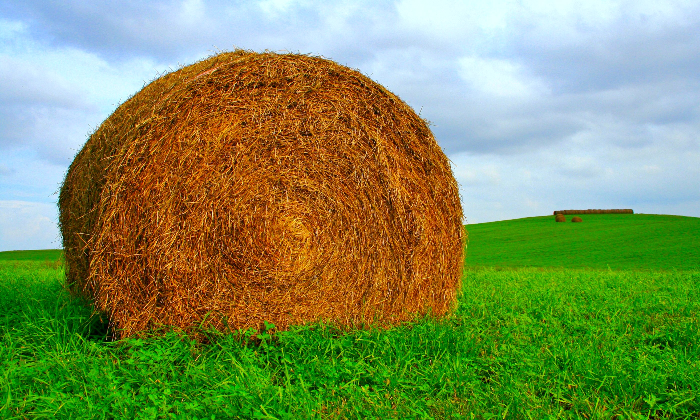 Albright Hay Bale